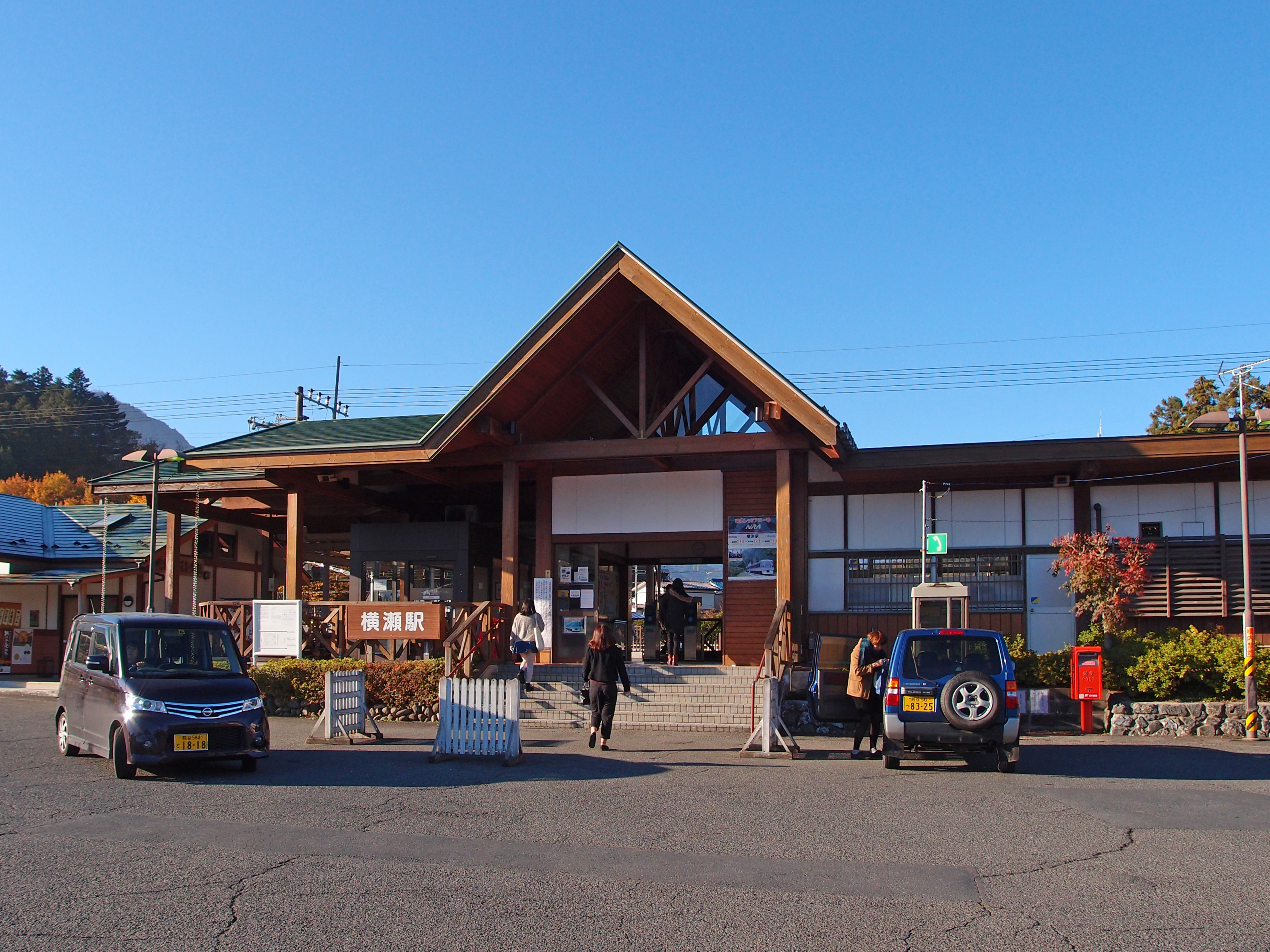 Yokoze Station on the Seibu Chichibu Line in Saitama Prefecture, Japan